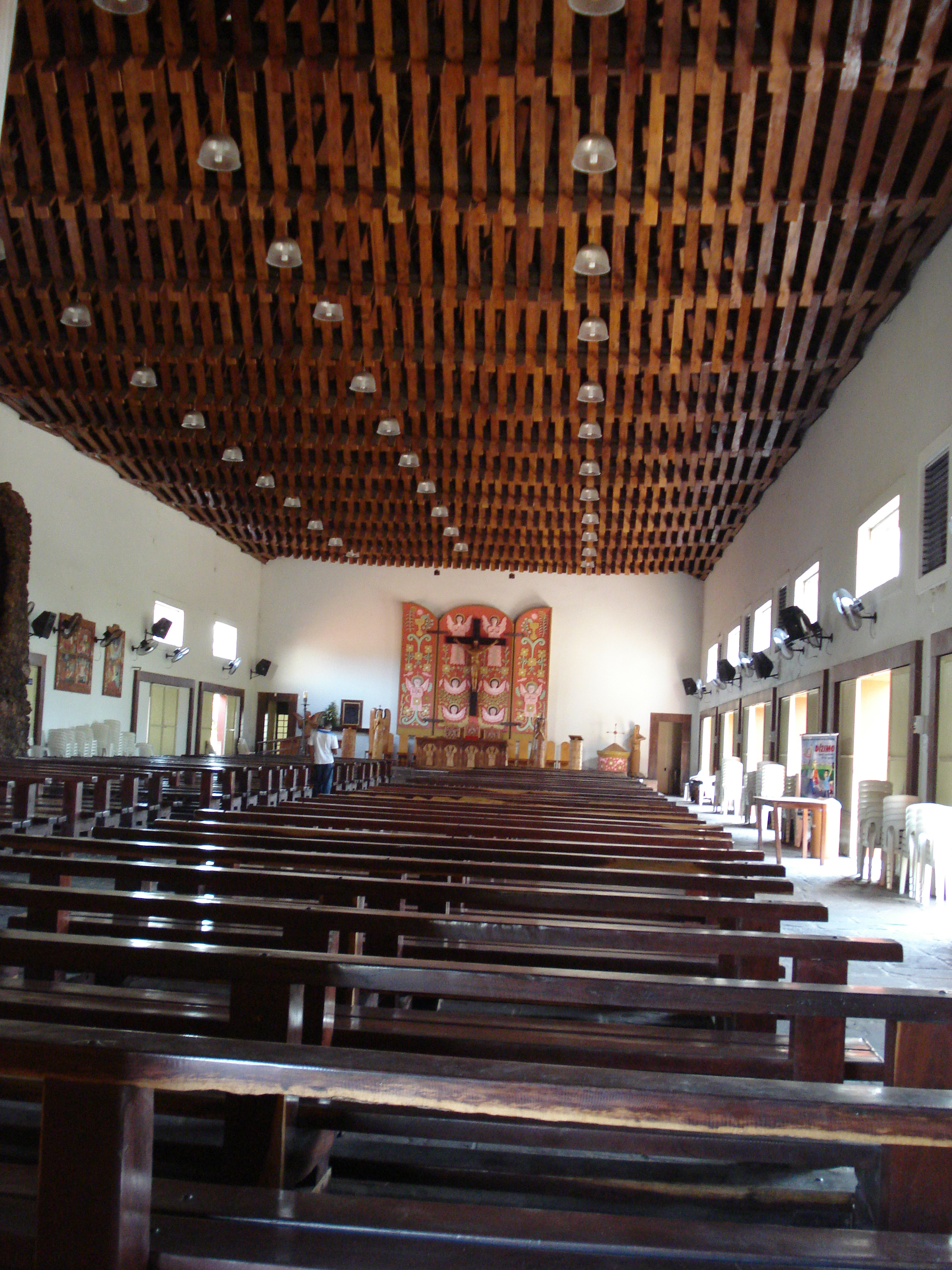 Igreja Nossa senhora de Lourdes